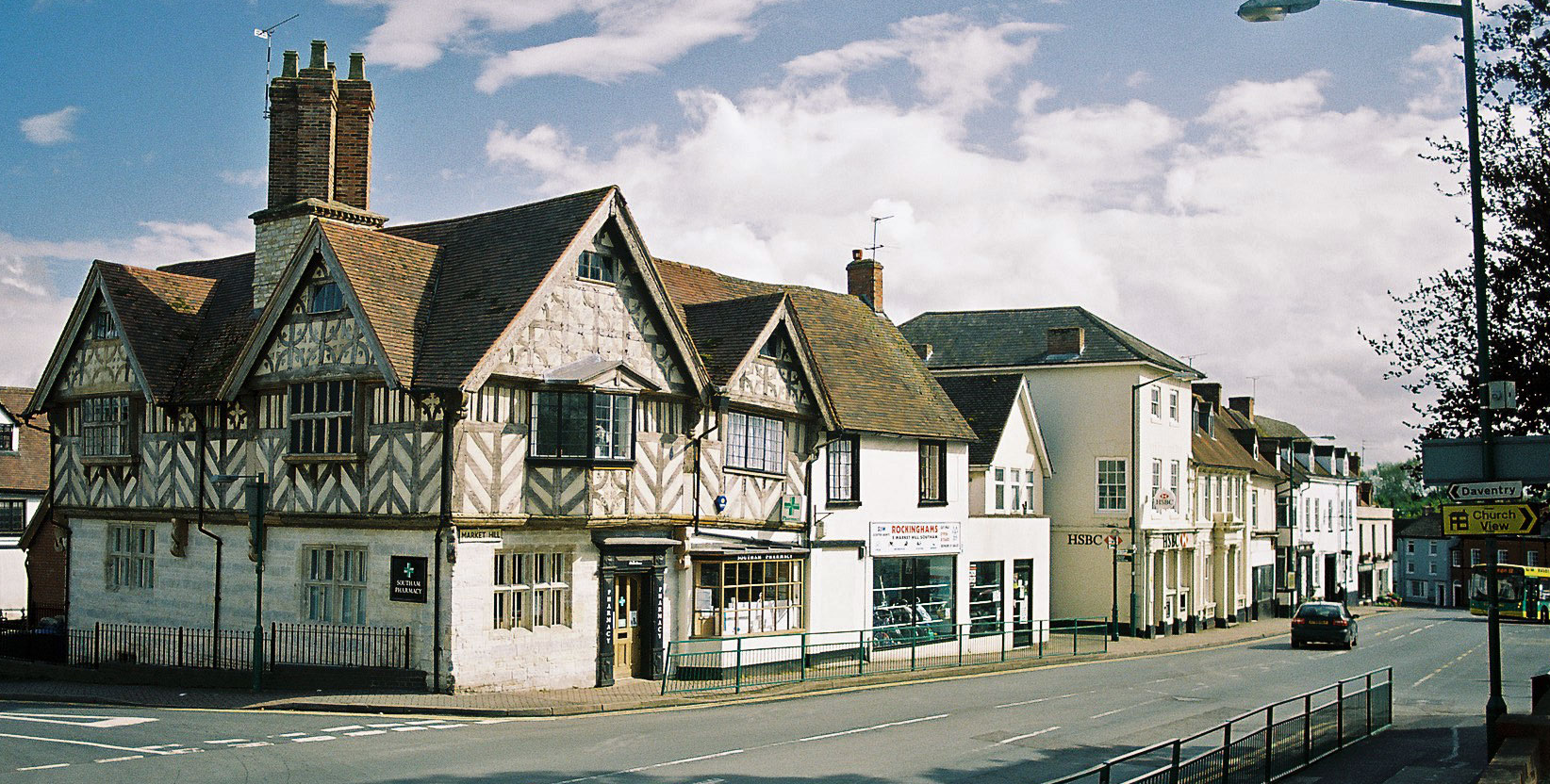 Market Hill in the centre of Southam, Warwickshire - the town's main street. The old building at the left is the old Manor House, which is where King Charles I is believed to have stayed before the Battle of Edgehill in 1642, it is now a chemist shop.